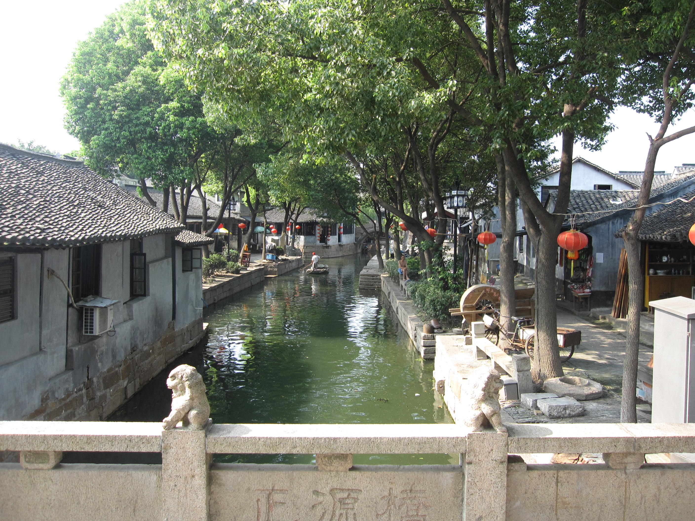 Luzhi Canal Town near Suzhou in Jiangsu Province.